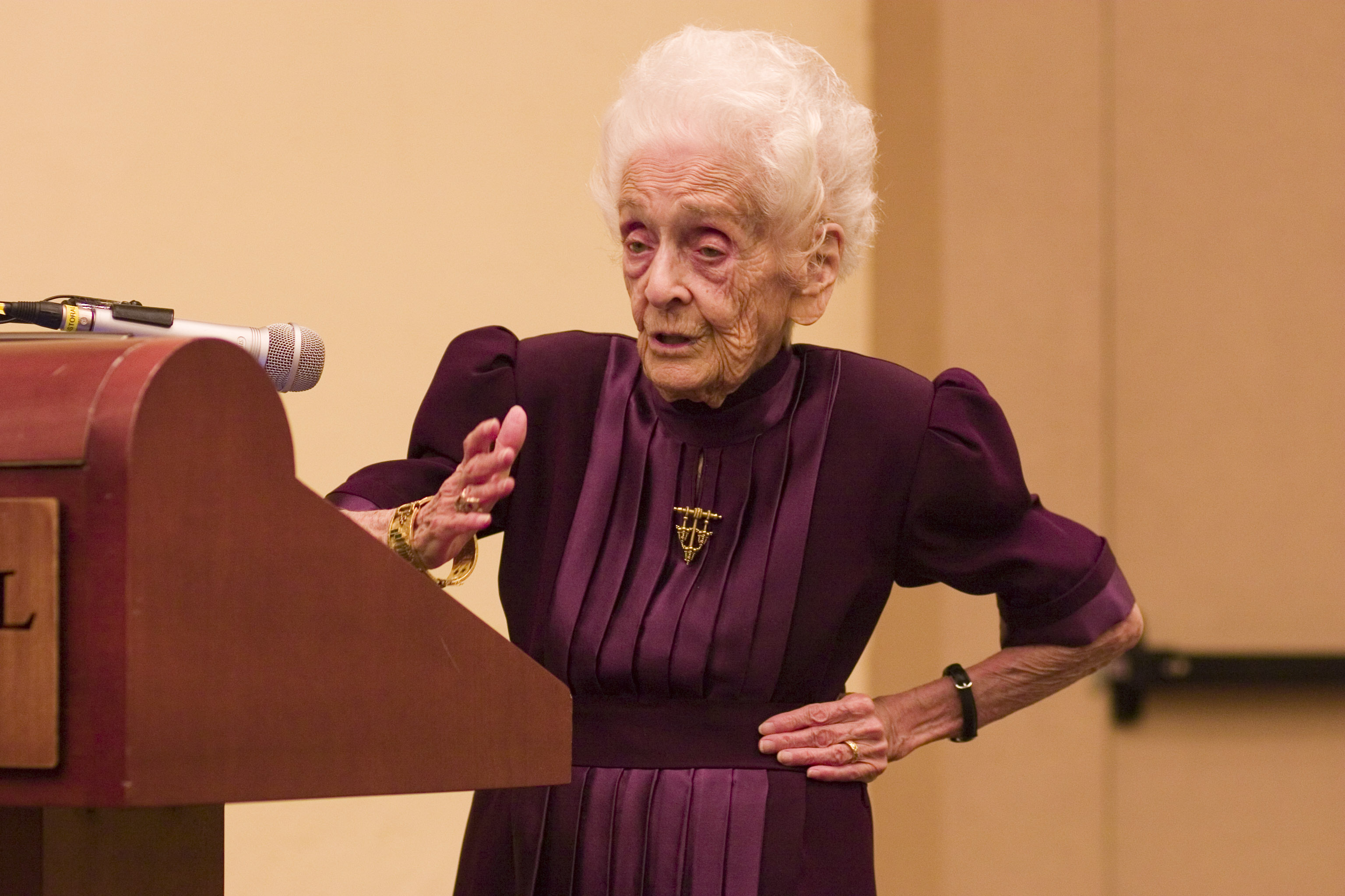 The 98 year-old mother of neuroscience special guest speaker at the international NGF meeting 2008: Katzir Conference on Life and Death in the Nervous System, at Kfar Blum, Israel. [1]